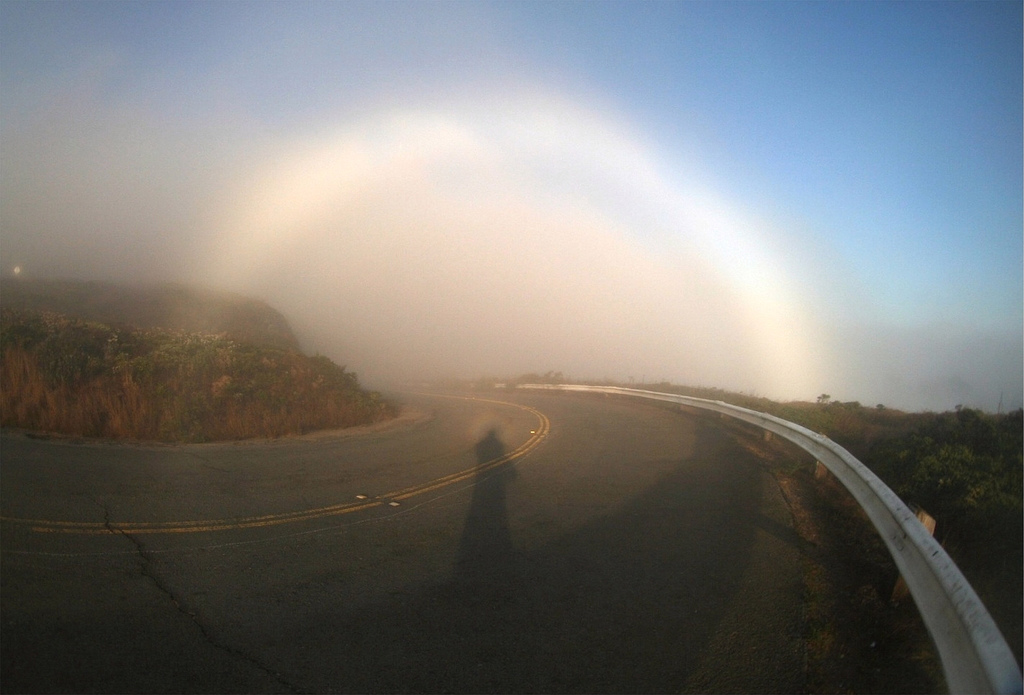 Fogbow and glory Photograped by Brocken Inaglory in September of 2006